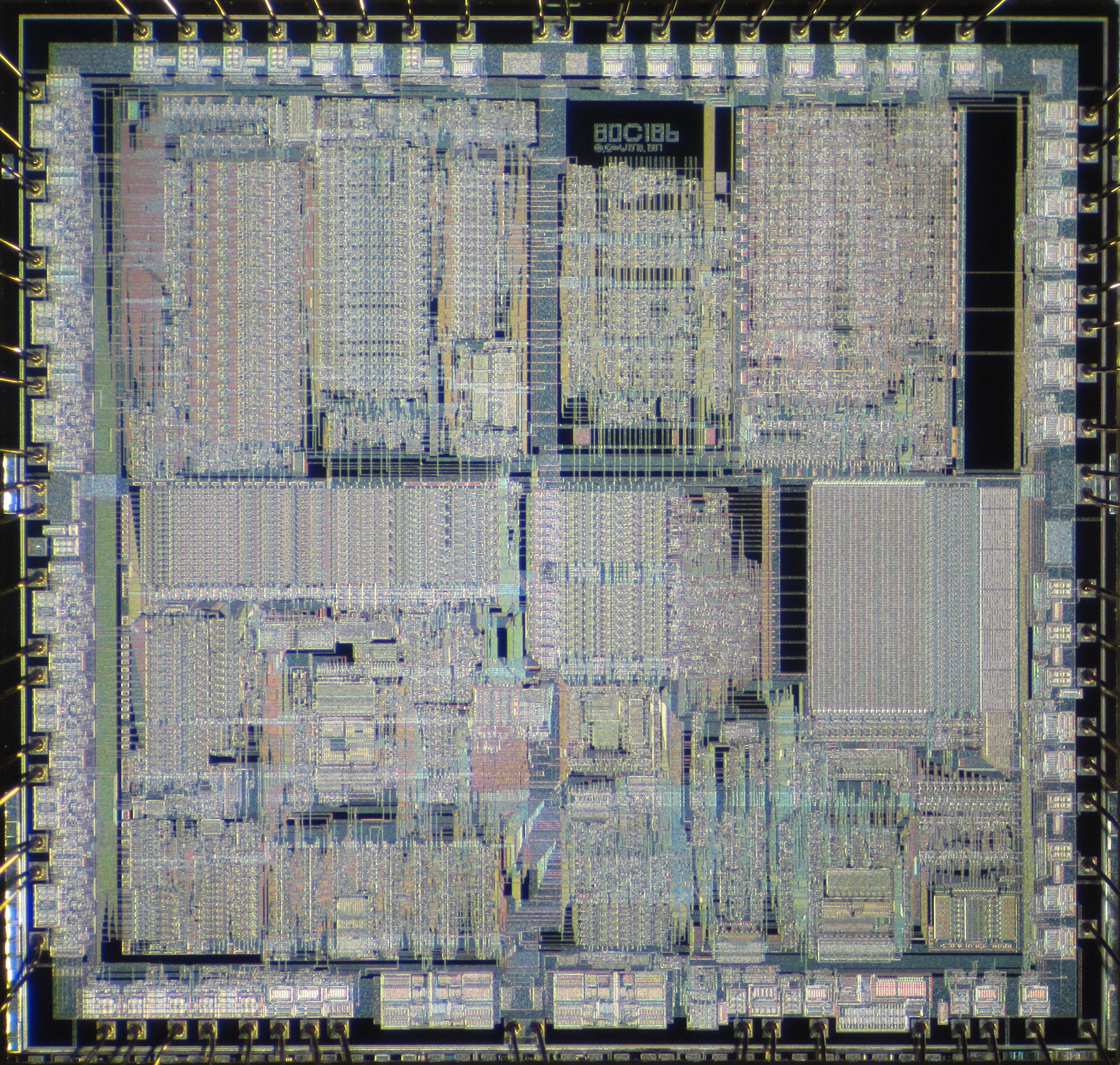 Die shot of Intel 80C186 microprocessor (MG80C186-10/B).